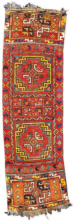 Uzbek Napramach, Origin: Central Asia, Uzbekistan, late 19th c. Size: ca. 130 x 40 cm